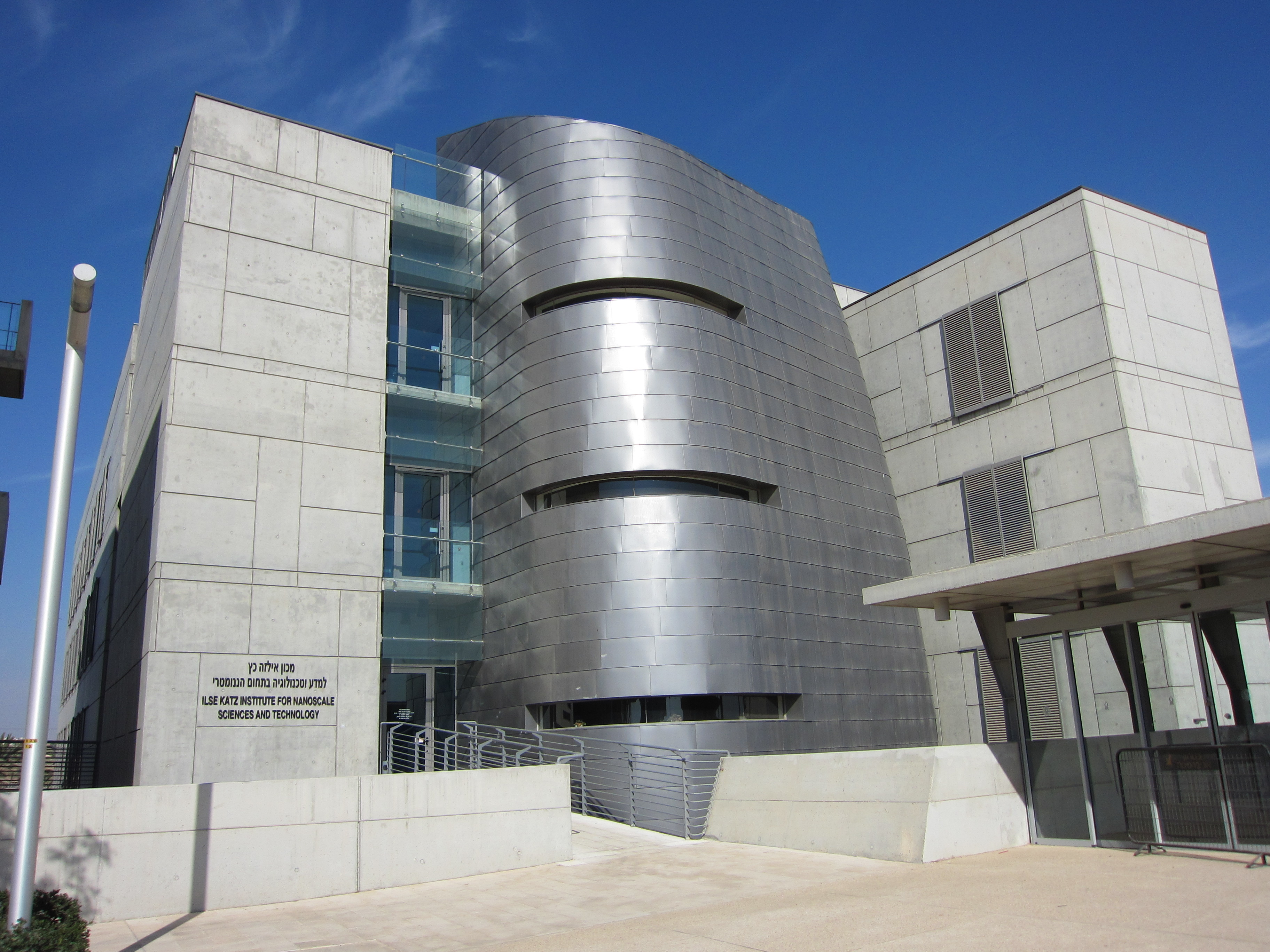 Ben Gurion University of the Negev (Photo: David Saranga)